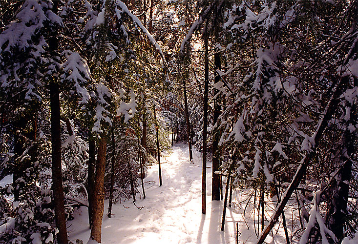 Bruce Trail - Halton, Ontario, Canada